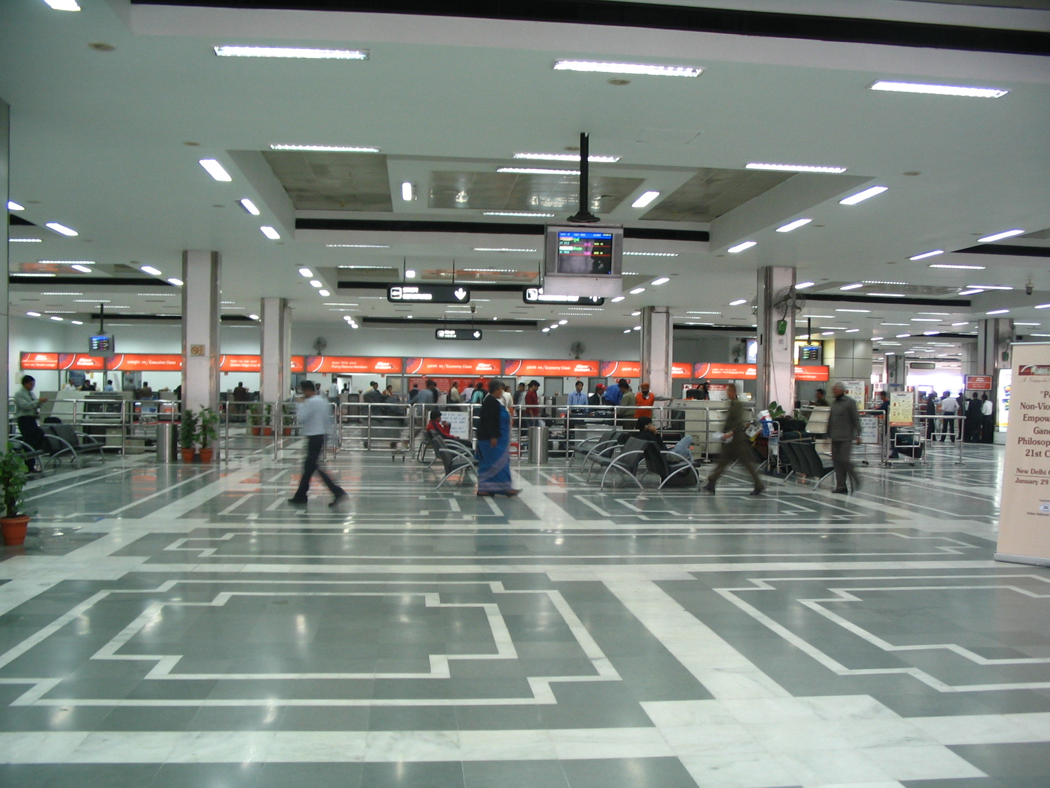 Check-in area of domestic departure terminal 1A of the Indira Gandhi International Airport, New Delhi, India